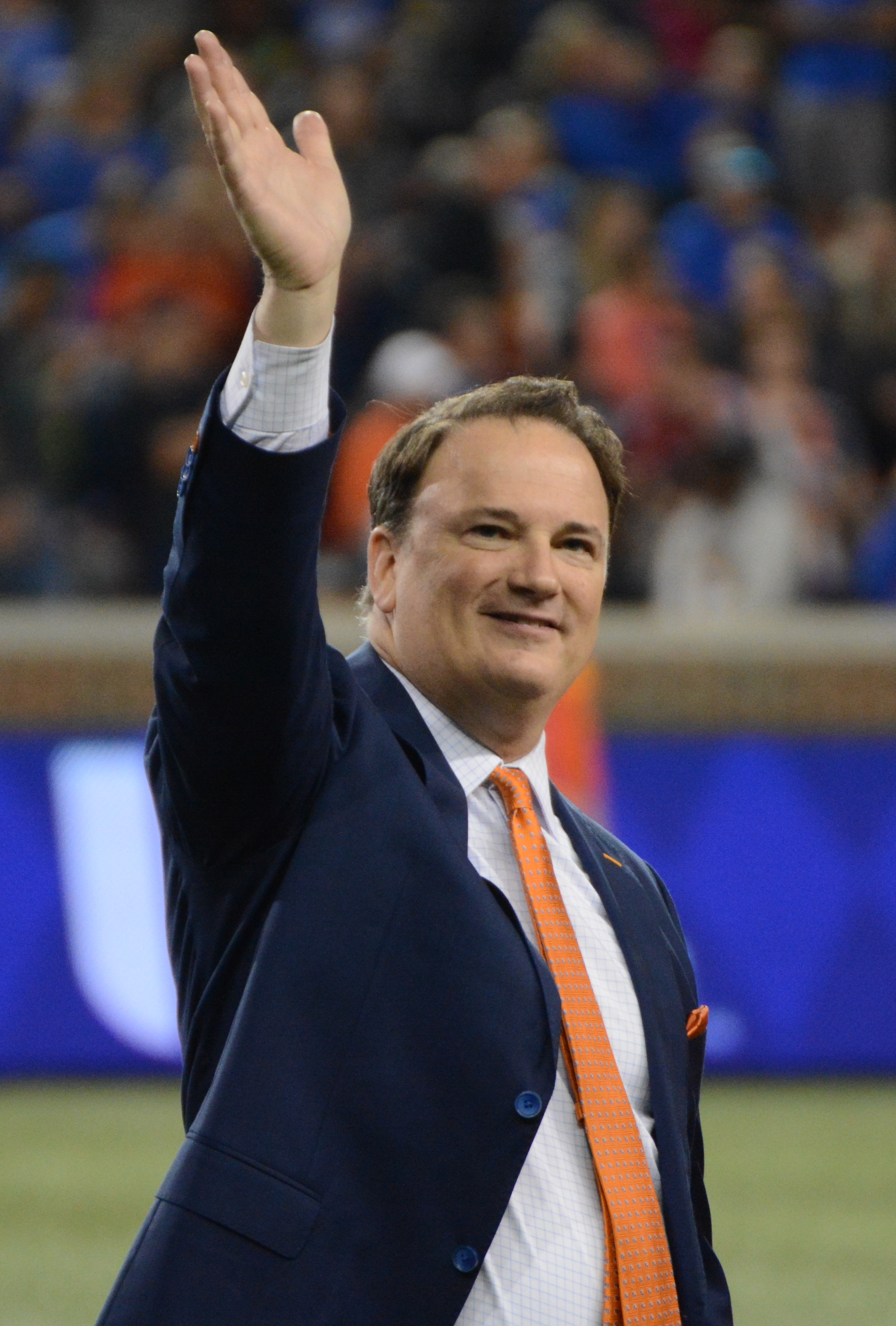 Taken during a USL regular season match between FC Cincinnati and Indy Eleven at Nippert Stadium in Cincinnati, USA on September 29, 2018.